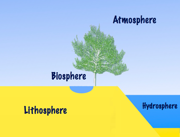 Earth has a hydrosphere, lithosphere, atmosphere, and biosphere.